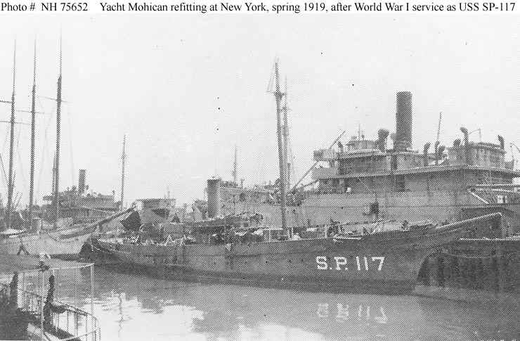 Patrol vessel USS SP-117, formerly USS Mohican (SP-117) refitting at Tebo's Yacht Works in New York City